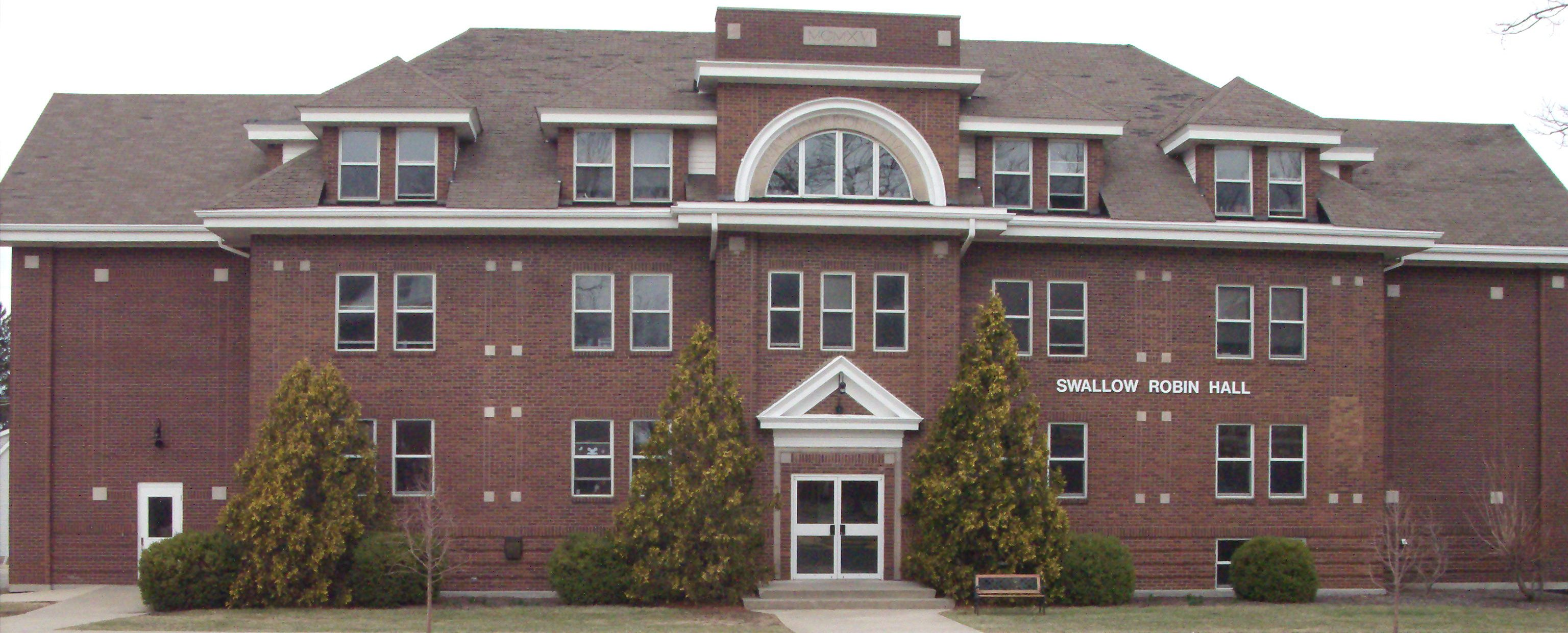 Taylor University's oldest remaining dorm, Swallow Robin Hall was constructed in 1916 under architect Samuel Plato